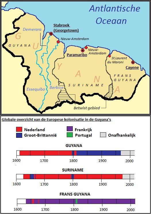 Colonial history of the Guyana's